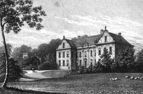 Willesley Hall in Leicestershire. from A descriptive and historical guide to Ashby-de-la-Zouch. The seat of Sir Charles Abney-Hastings